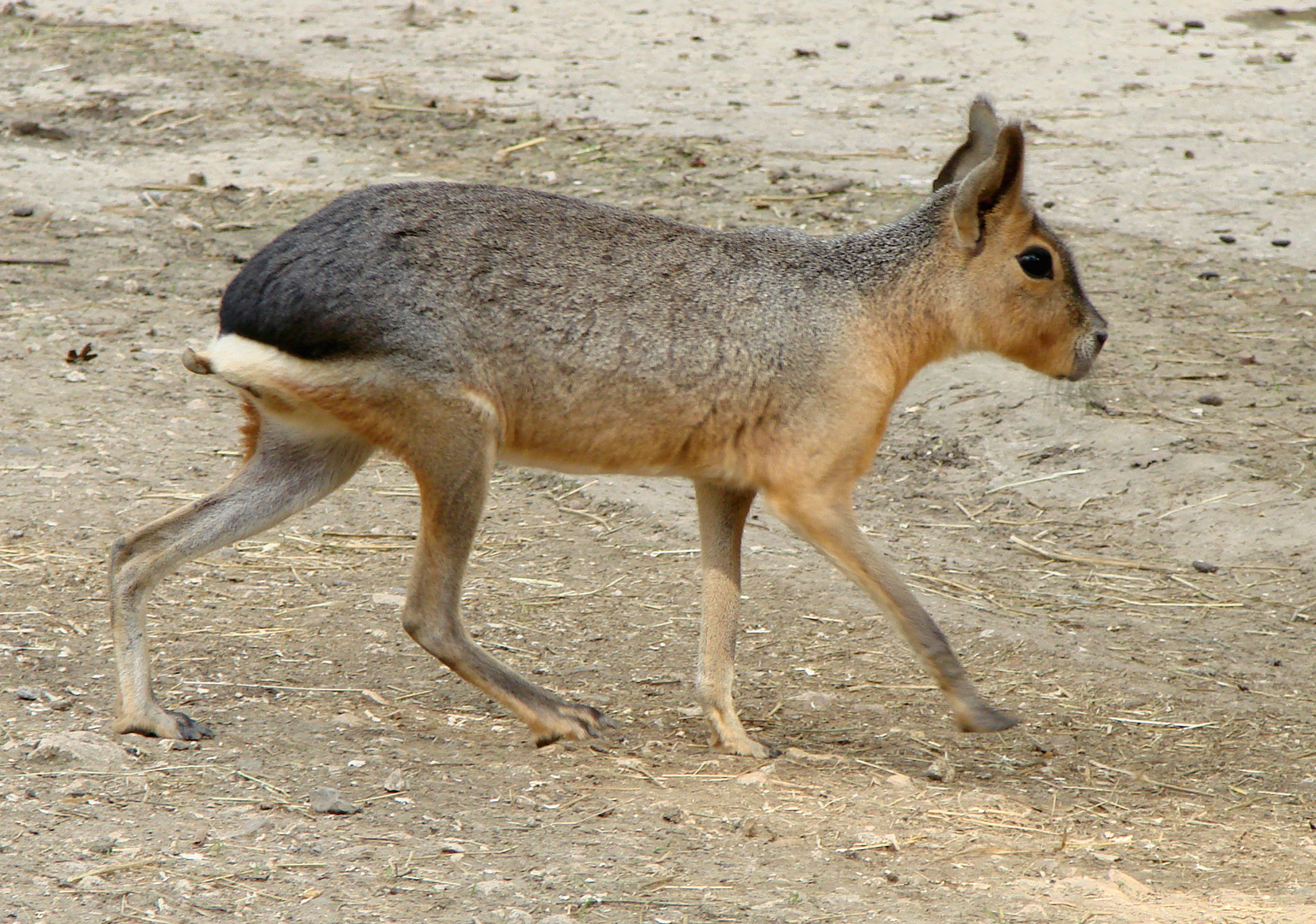 A mara (Dolichotis patagonum).These animals amble. Thoiry Zoo.